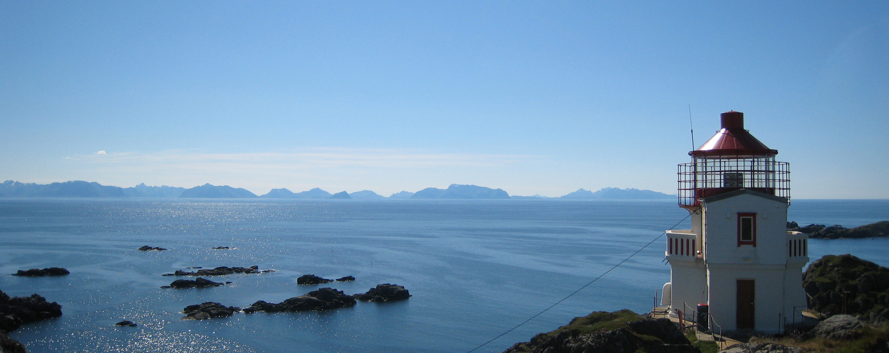 The old lighthouse at Litløya. There is still a light, but in a mast some few meters away from the building.